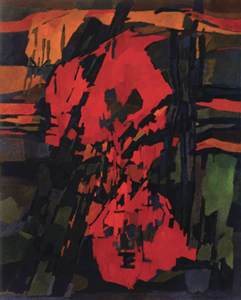 Pierre Dmitrienko,"Broceliande", 1955, oil on canvas, 160x130cm